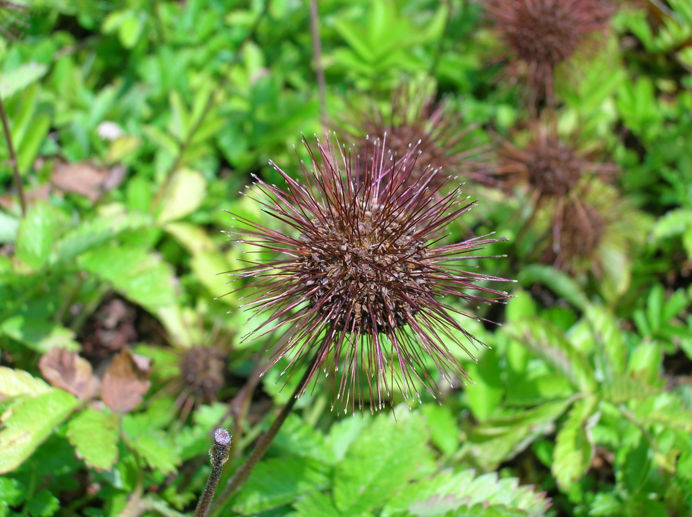 Acaena magellanica, photo was taken at the Ecological-Botanical Gardens in Bayreuth, Germany